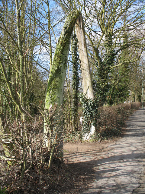 Whalebone Park. Whale jaw bones form an arch over the entrance to Whalebone Park, Wood Street, Barnet.